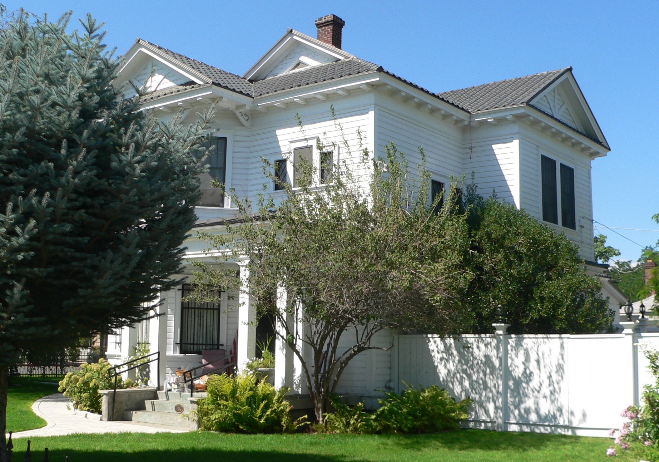 Robison house, located at 409 13th Street in Sparks, Nevada; seen from the northeast.